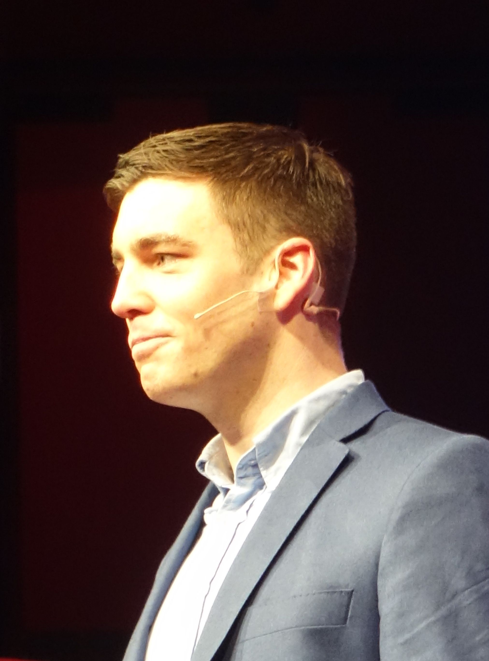 Jack Tame